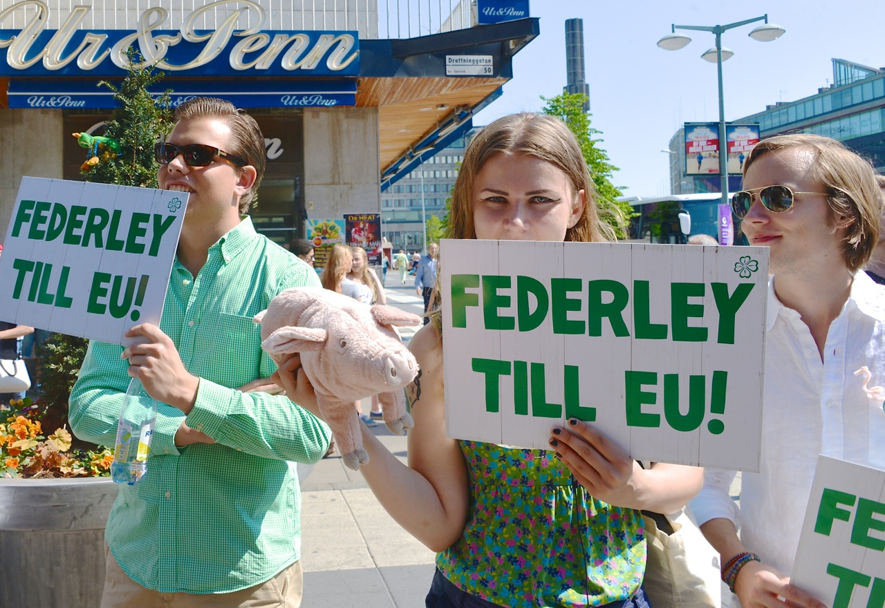 Sympathizers of Fredrick Federleys as he speaks at Sergels torg in Stockholm May 24, 2014, before the European election the next day.